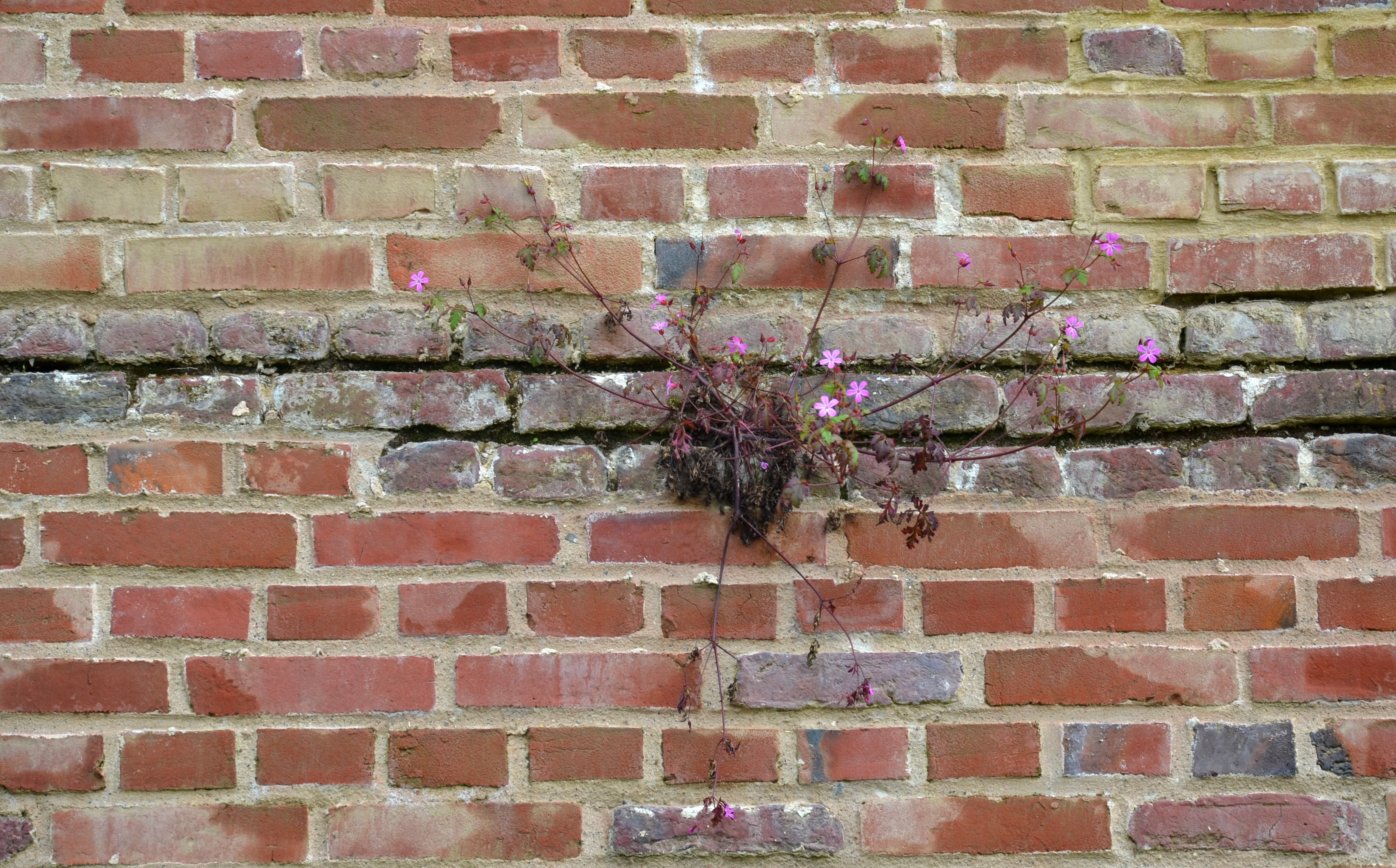 Most of those plant species are not specically "muricoles". But many lichens, mosses, trees plants were installed on the walls of the Citadel of Lille Vauban. In non-mountainous areas (as here in Nord-Pas-de-Calais, few plants (in these regions) grow only on these walls.They are. muricoles species (or saxicolous, ie usually growing on rocks) Photo taken in 2013, one year after the renovation of the rampart. An ecologist visited the site (before the project) to locating rare species. and some of the crevices and plants (or their roots) were deliberately kept (between sandstone particular). Nesting boxes for bats were built behind the bricks during the renovation. between bricks, some holes filled with soil may also harbor solitary bees or other insects. At the foot of the wall, the old moat was reopened and was spontaneously filled with water.